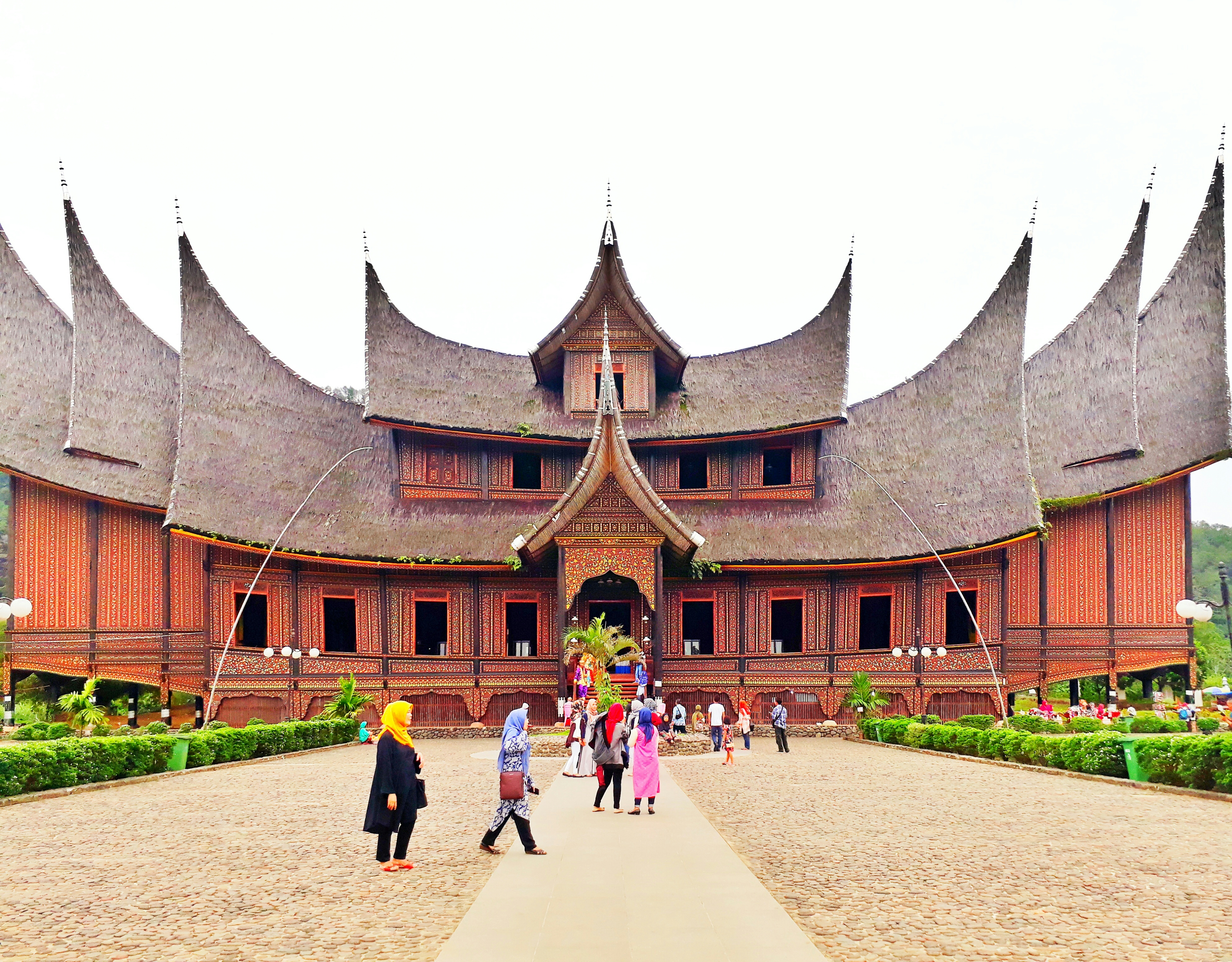 Rumah adat pagaruyung